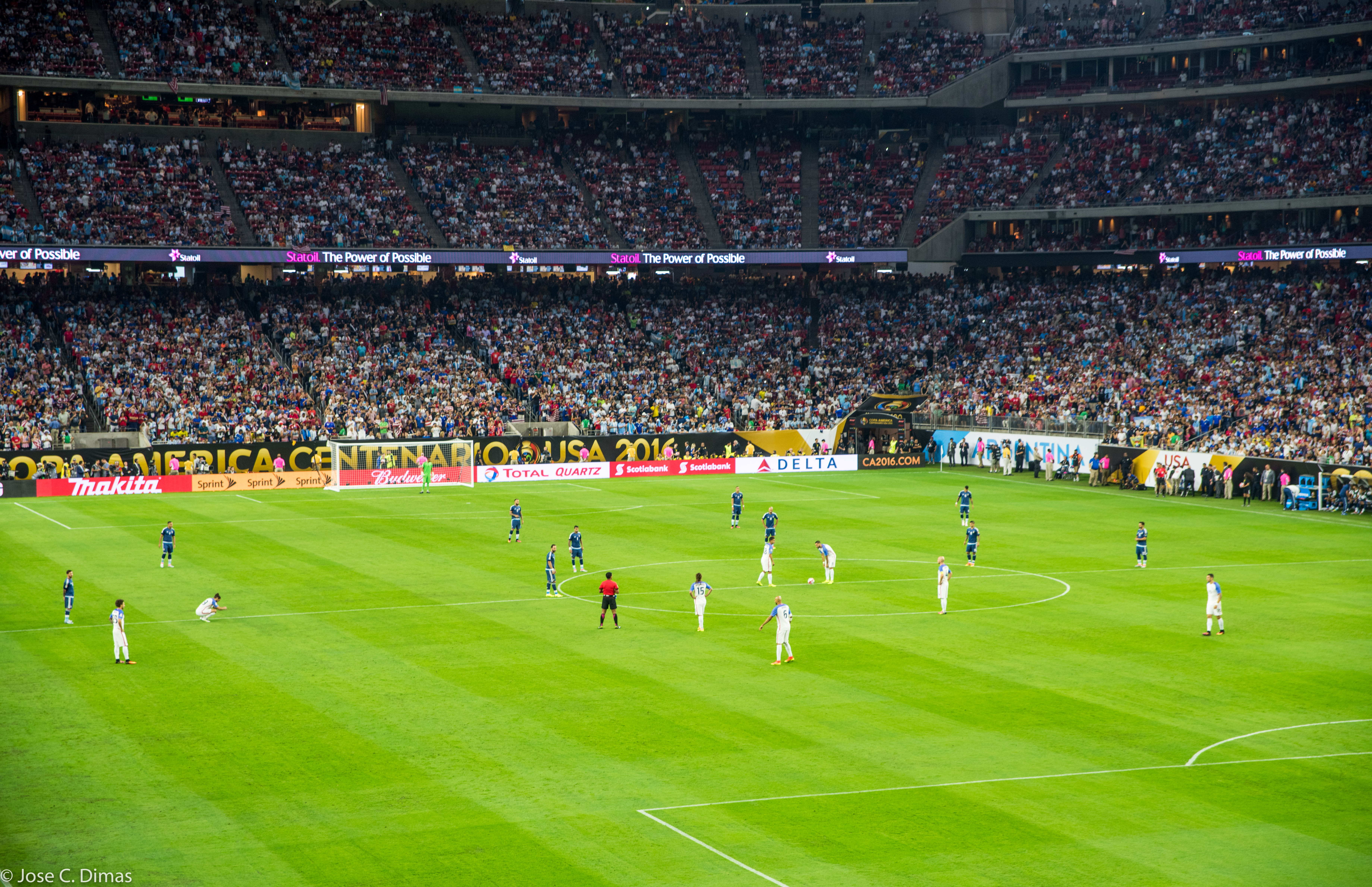 Moments before kickoff